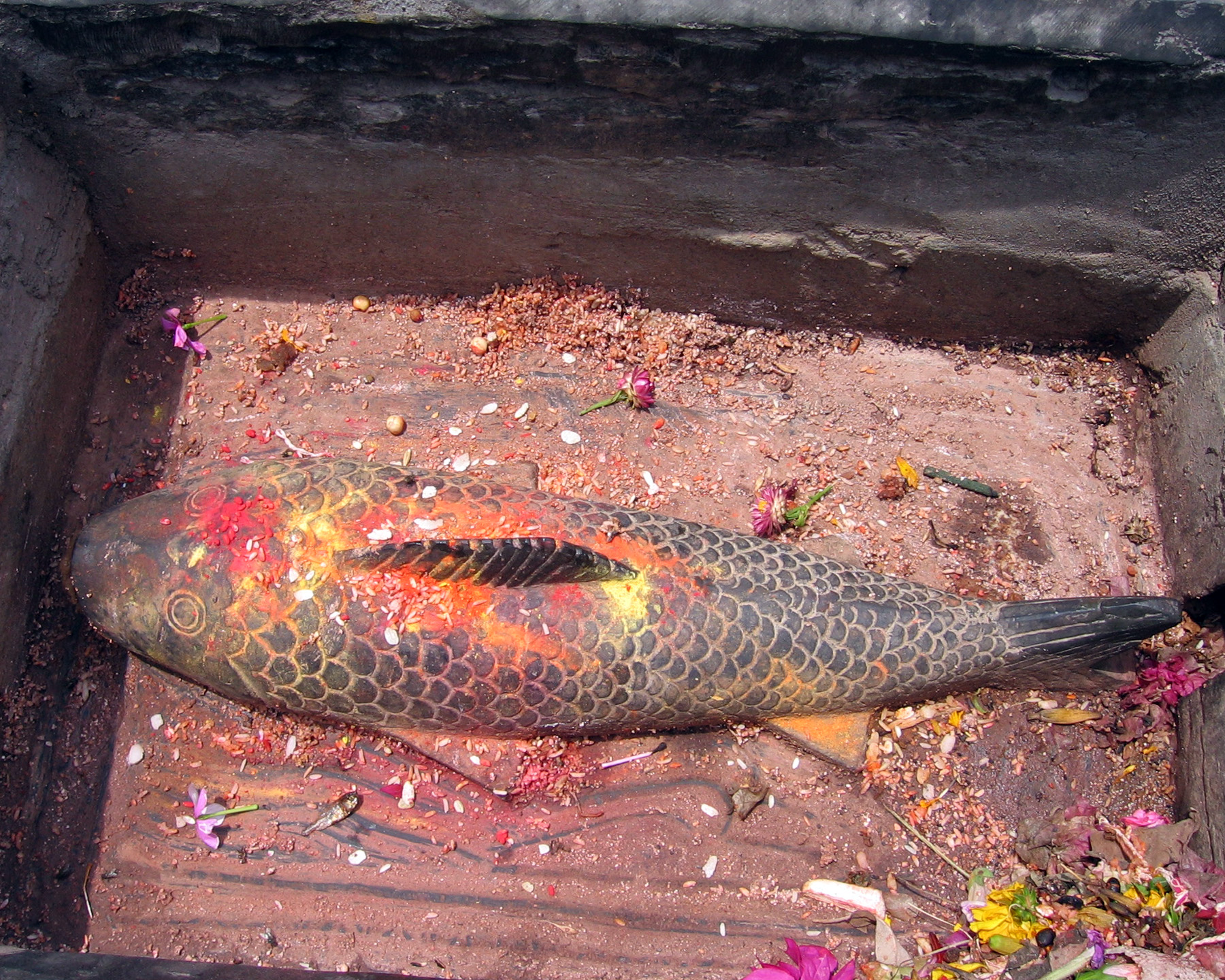 Stone figure of a fish at Asan, Kathmandu.